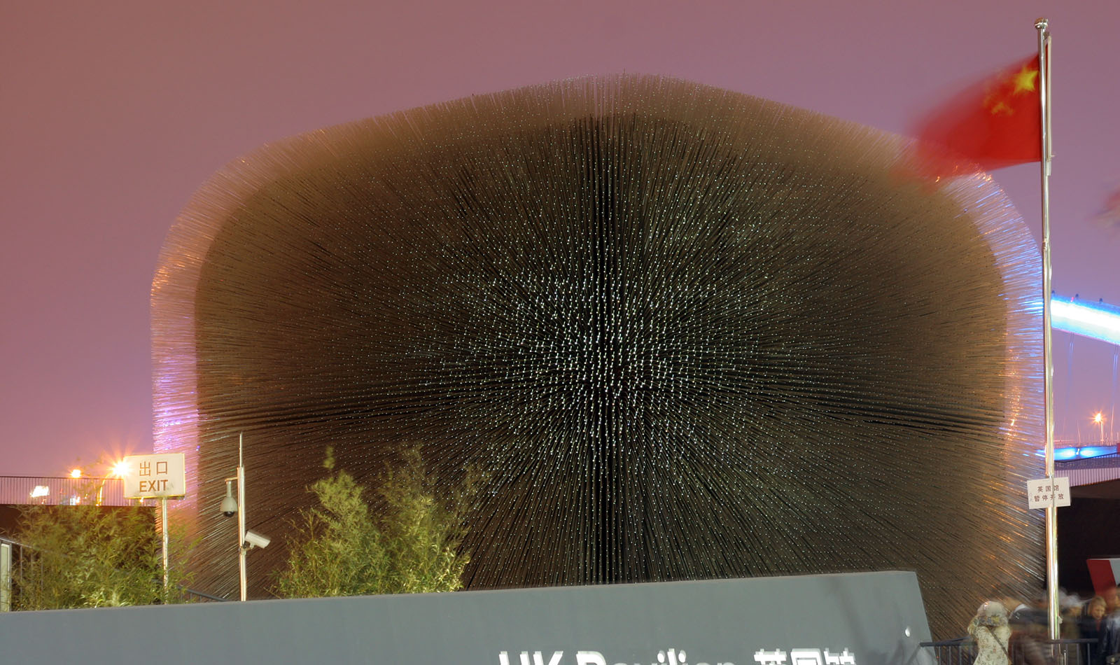 UK Pavilion of Expo 2010 in the nighttime